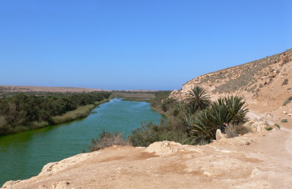 The lagoon at Oued Massa, Morocco